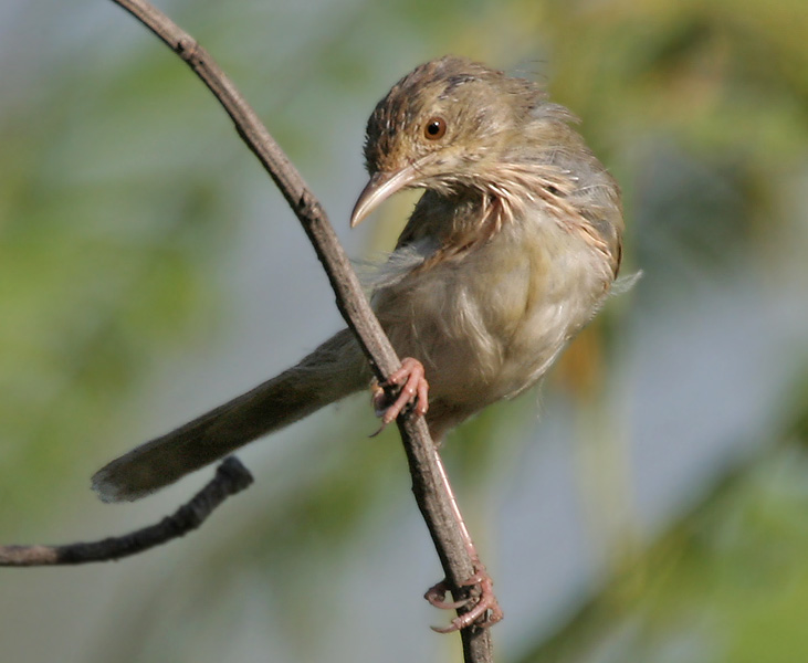 Jungle Prinia Prinia sylvatica in Hyderabad, India.